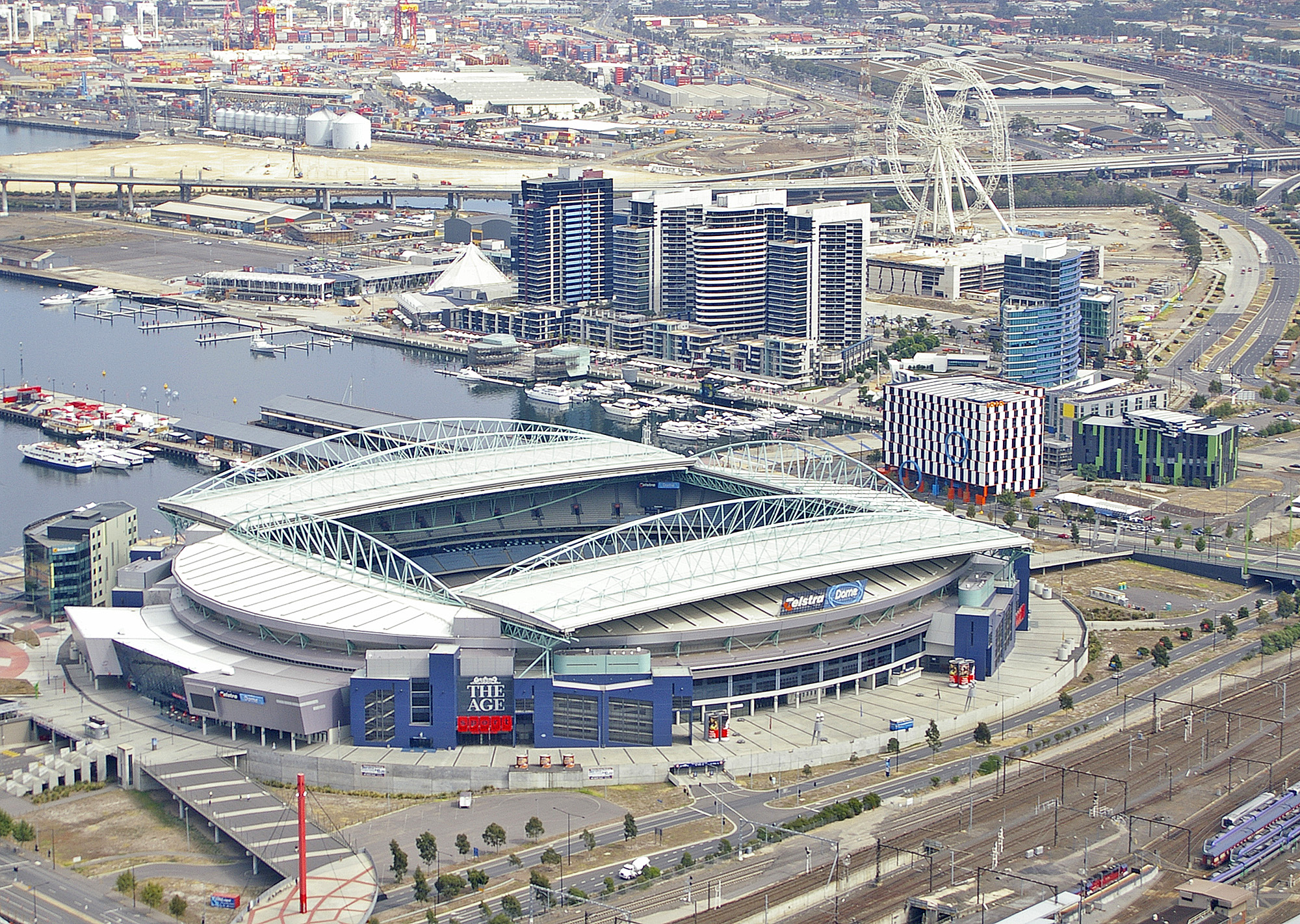 Overlooking the Telstra Dome from the Rialto Towers in Melbourne, Victoria, Australia